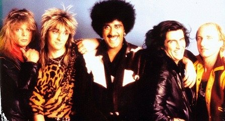 Line-up of Grand Slam, band formed by ex Thin Lizzy front-man Phil Lynott